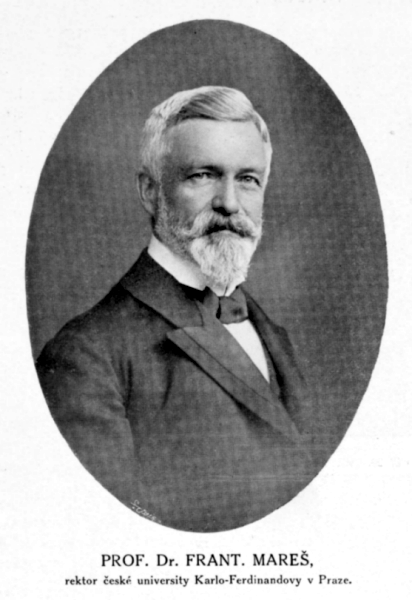 František Mareš (1857-1942) was a Czechoslovak professor of physiology and philosophy, and nationalist politician, in 1912-1913 rector of the Charles University in Prague.